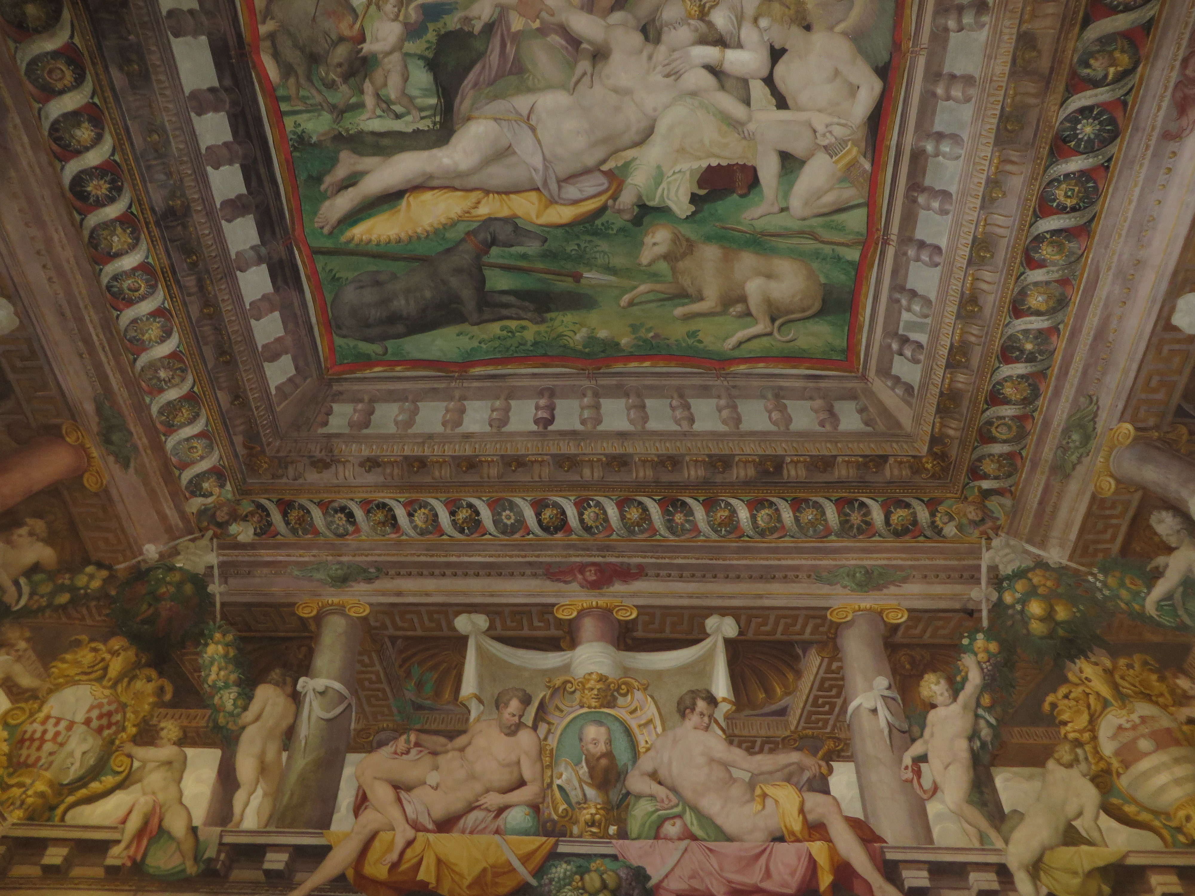 Rossi Castle San Secondo16